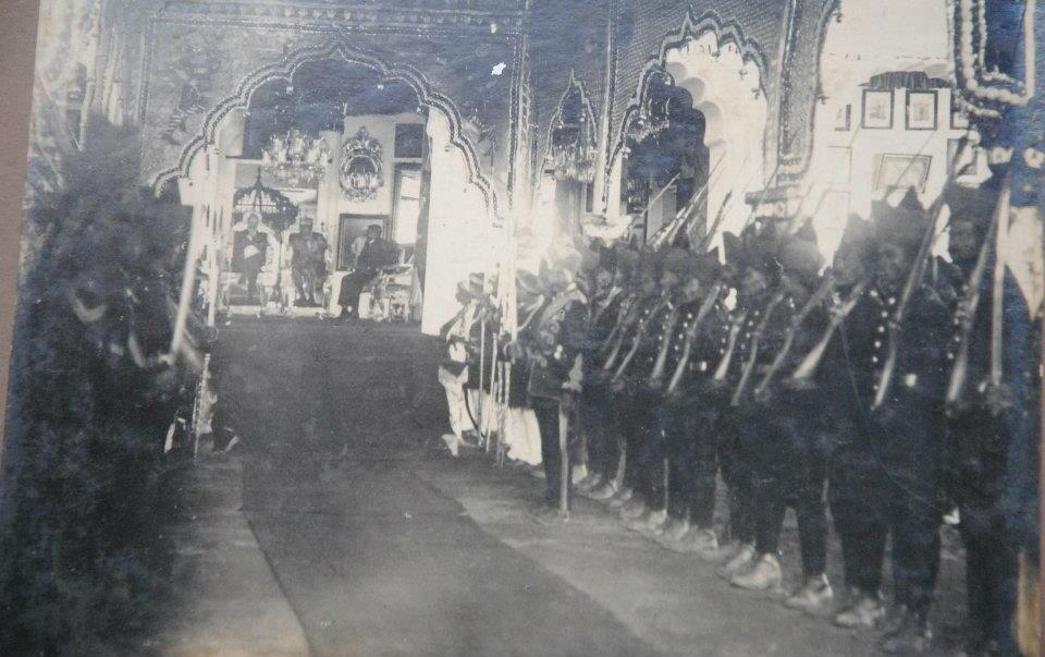 Maharaja of Jeypore Durbar hall